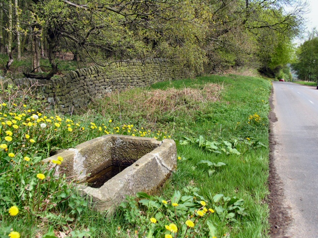 Horse Trough on Mortimer Road. Fed by a spring emerging from forestry behind the drystone wall, this trough must have refreshed many a beast of burden on the old coaching road past Thornseat Manor.